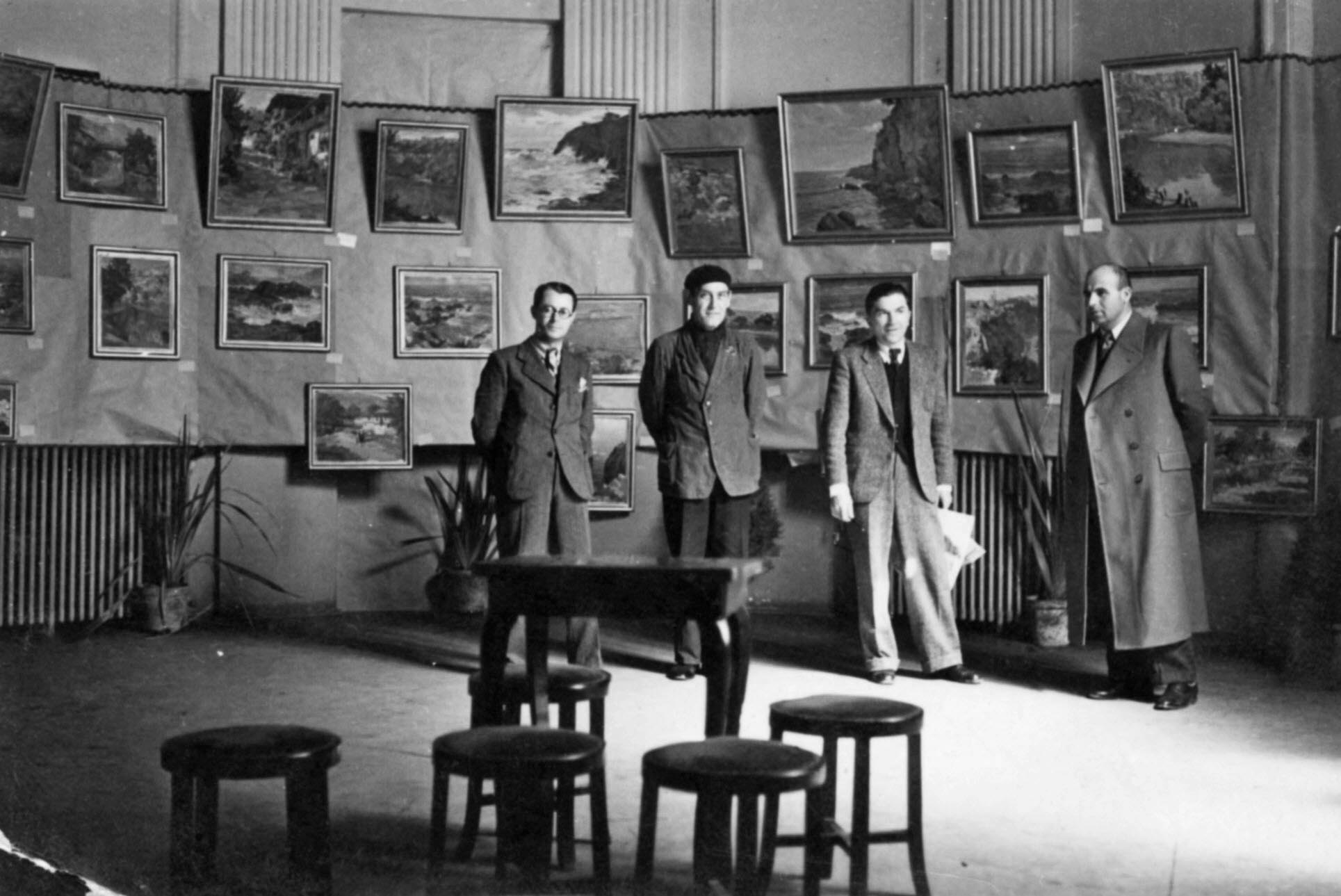 Exhibition of Georgi Velchev